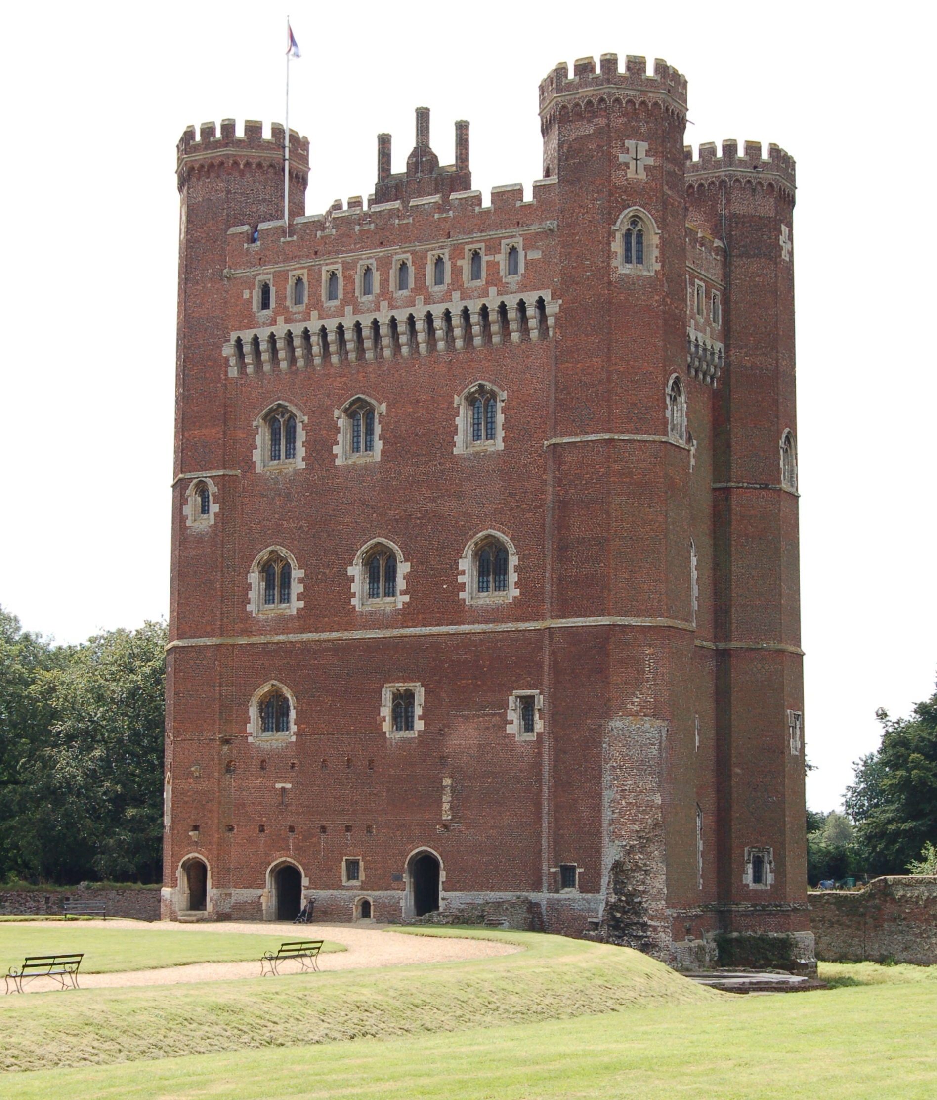 Photograph of Tattershall Castle